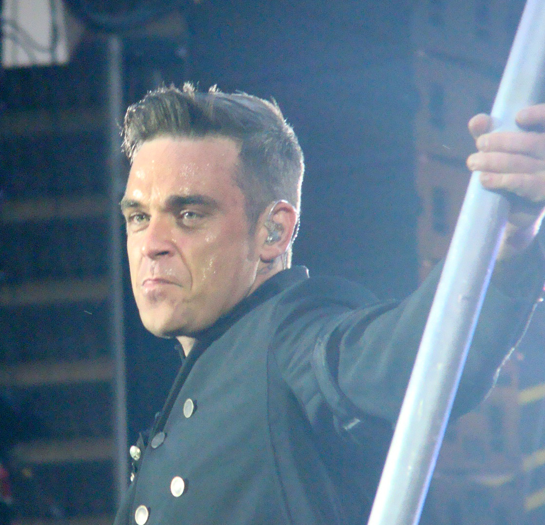 Robbie Williams performing as part of the Take That Progress Live 2011 Tour, Sunderland Stadium of Light